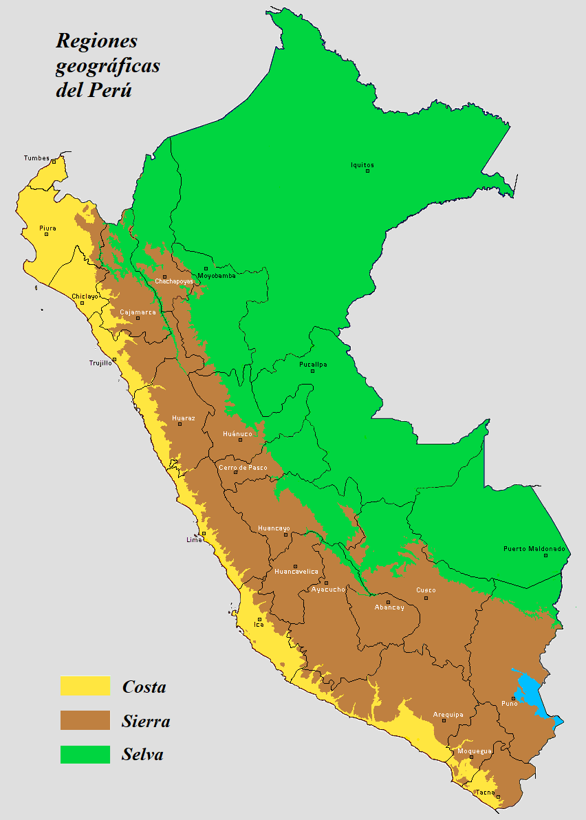 Map of the three traditional regions of Peru: Costa (Coastal region), Sierra (Highlands or Andean region) and Selva (Rainforest, Jungle or Amazon region).